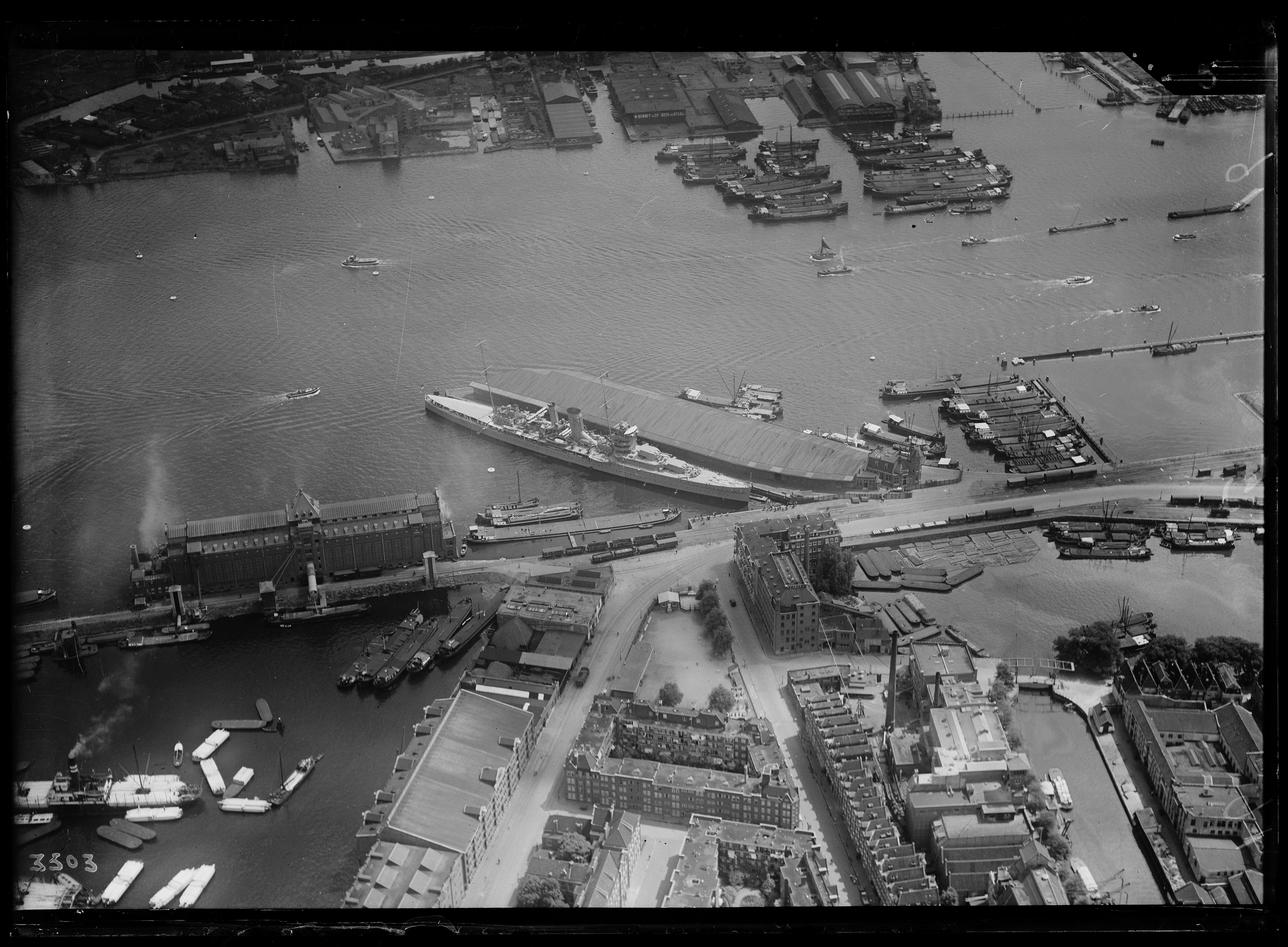 Aerial photograph of Amsterdam, The Netherlands